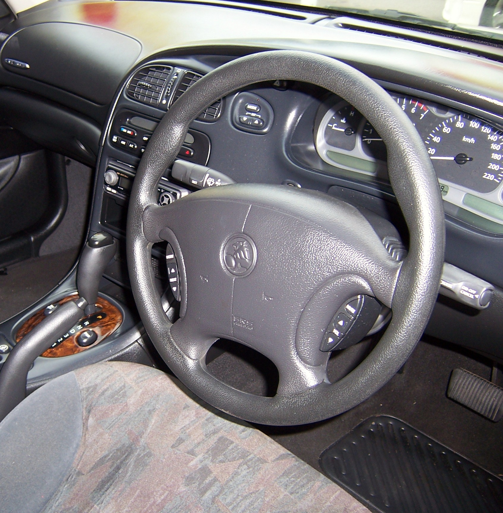 2001–2002 Holden Berlina (VX II) sedan. Photographed at McGrath Sutherland Holden, Kirrawee, New South Wales, Australia.